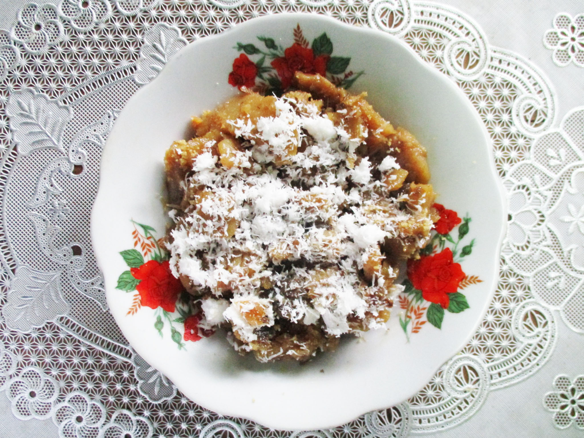 Gathot is made from cassava, usually is served with grated coconut as topping. We can meet this food in Central Java and Special Region of Yogyakarta.